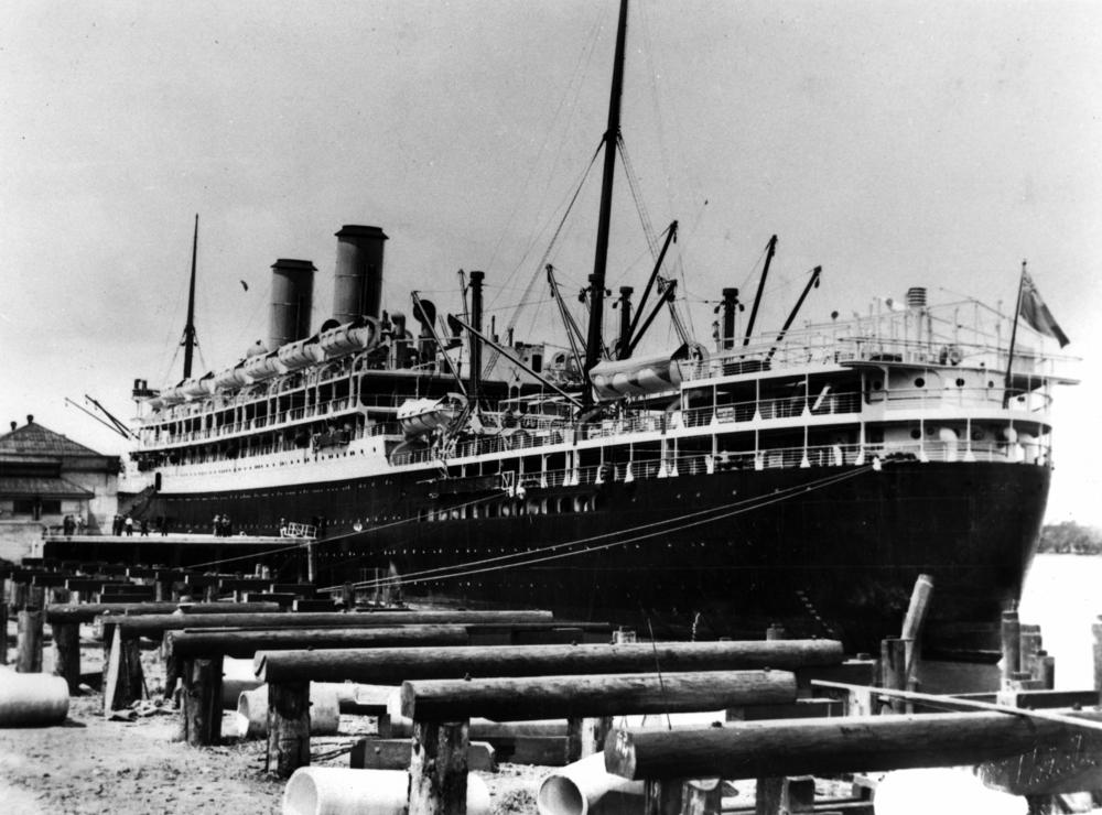 Steamship, Orford, at Brett's wharf, Hamilton about 1929. In 1928 the Queensland Government leased to Messrs. Brett and Company a part of the Port Estate at Hamilton on the Brisbane River and a subsidiary company, Brett's Wharves and Stevedoring Co. Ltd., was formed to take over the firm's shipping interests. In October 1928 plans and specifications were prepared for a wharf suitable for the largest ships visiting the port. Provision was to be made for the storage and handling of general cargo, including wool and large quantities of timber. A timber wharf was subsequently built equipped with two electric cranes. The contract for the wharf was let to Messrs. Taylor Bros. of Brisbane on the 1st December 1928. The first pile was driven on the 16th January 1929 and the first ship berthed at the wharf on the 26th July. This was the Texas Oil Company's tanker 'Australia' of 19 000 tons. (Information taken from: Edward Boyd Cullen, The construction of Brett's Wharf, Brisbane, 1933).